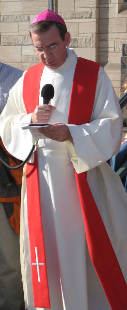 Way of the Cross Good Friday, Duluth 2006